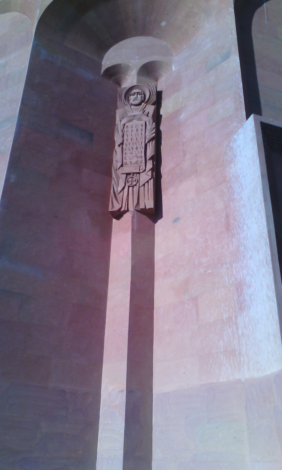 St. Mesrop Mashtots and the Armenian alphabet